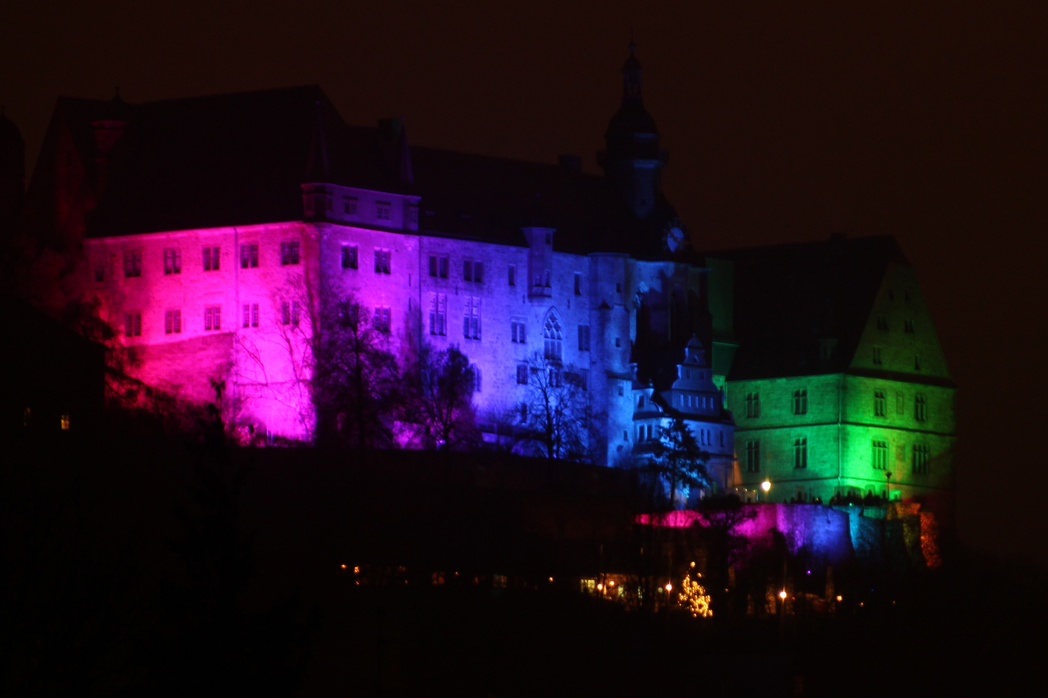 Light art festival Marburg b(u)y Night in the year 2015 - The castle